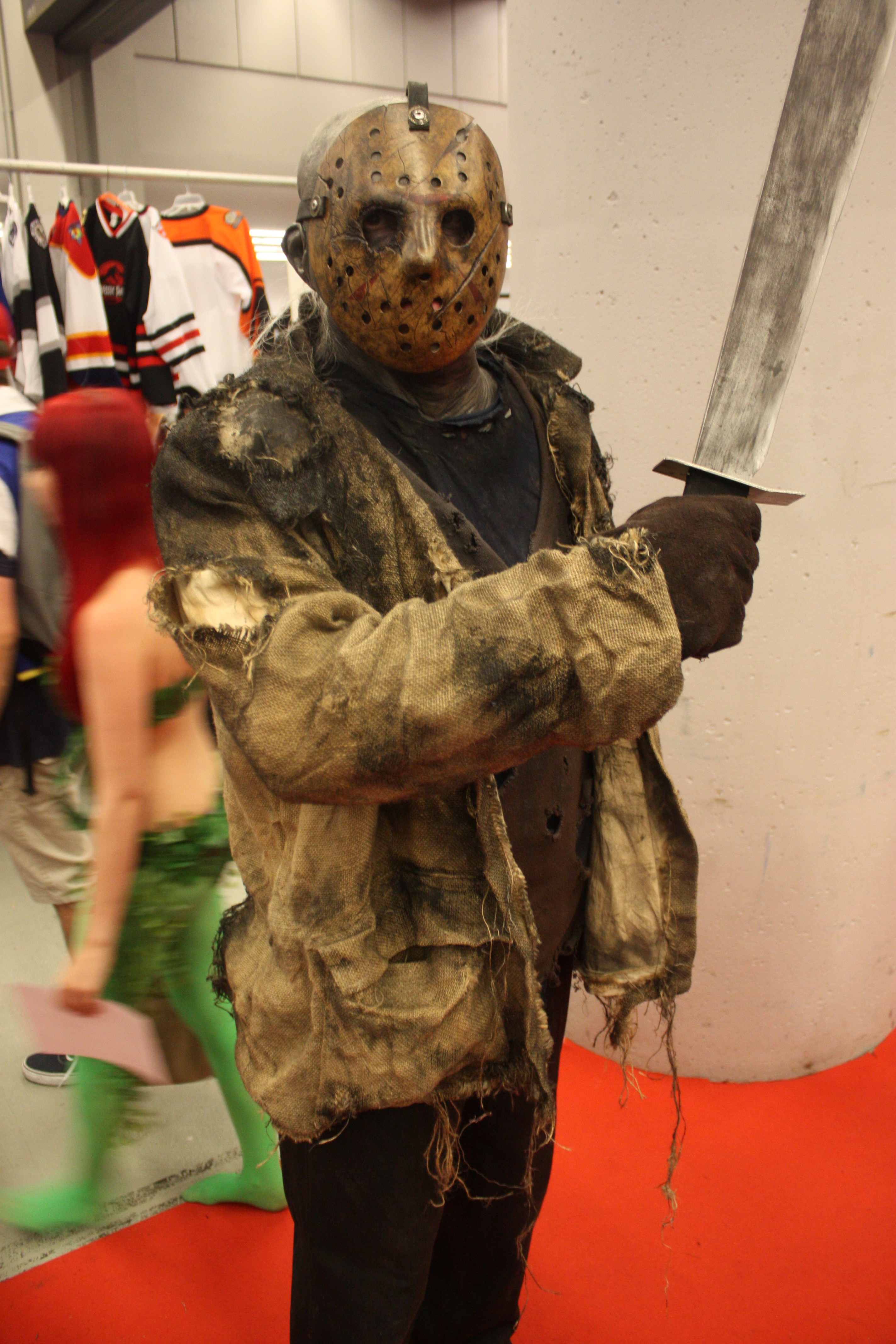 Cosplay one day two of Montreal Comiccon 2015.